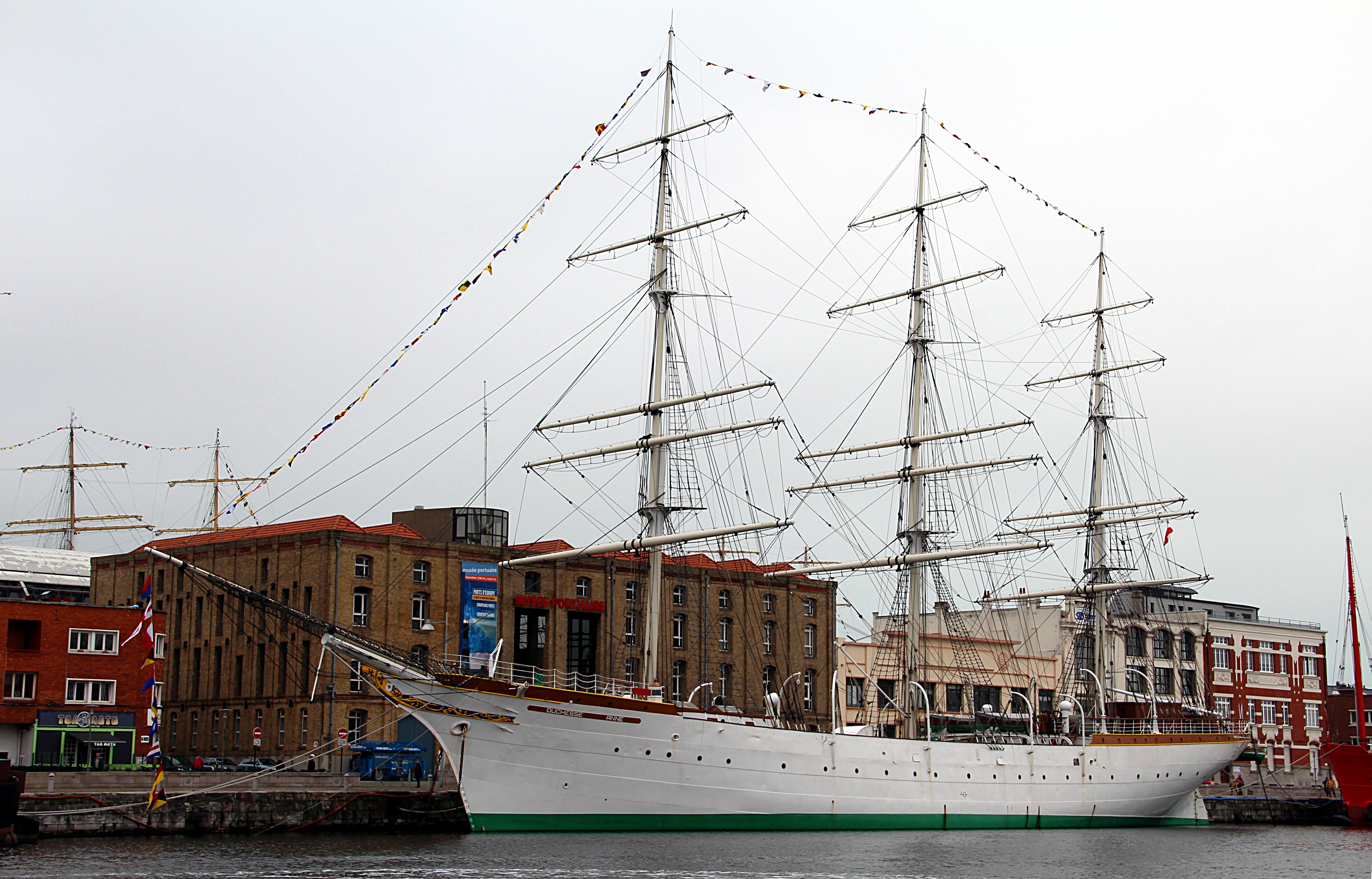 The Duchesse Anne formely called - Grossherzogin Elisabeth , the last three-masted square, preserved in France. Built in 1901 by the Johann C. Tecklenborg shipyard in Bremerhaven-Geestemünde (Bremen) according to plans by Georg W. Claussen. It is currently part of the Dunkirk Maritime Museum as museum ship.